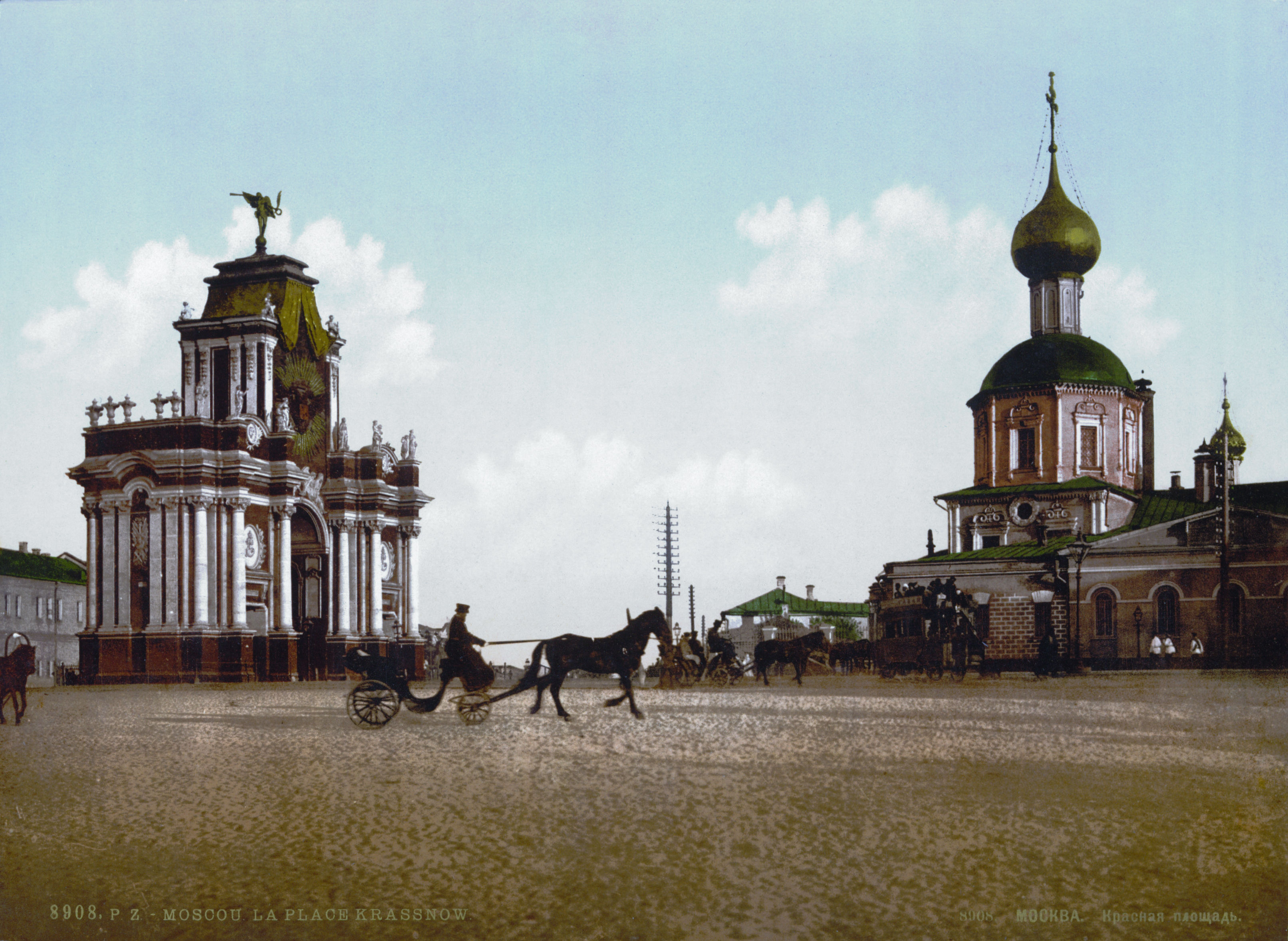 19th-century postcard of the Red Triumph Gates in Moscow (1753-57).